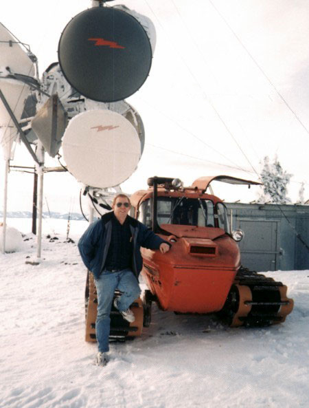 This is my photo of my friend Gary Wilkinson standing with his 1959 Kristi KT-3 snowcat at a microwave antenna array that needed to be repaired. The following text was removed from the image itself per Wikipedia's image use policy: 1959 Kristi Snowcat used to access microwave antennas on mountain tops